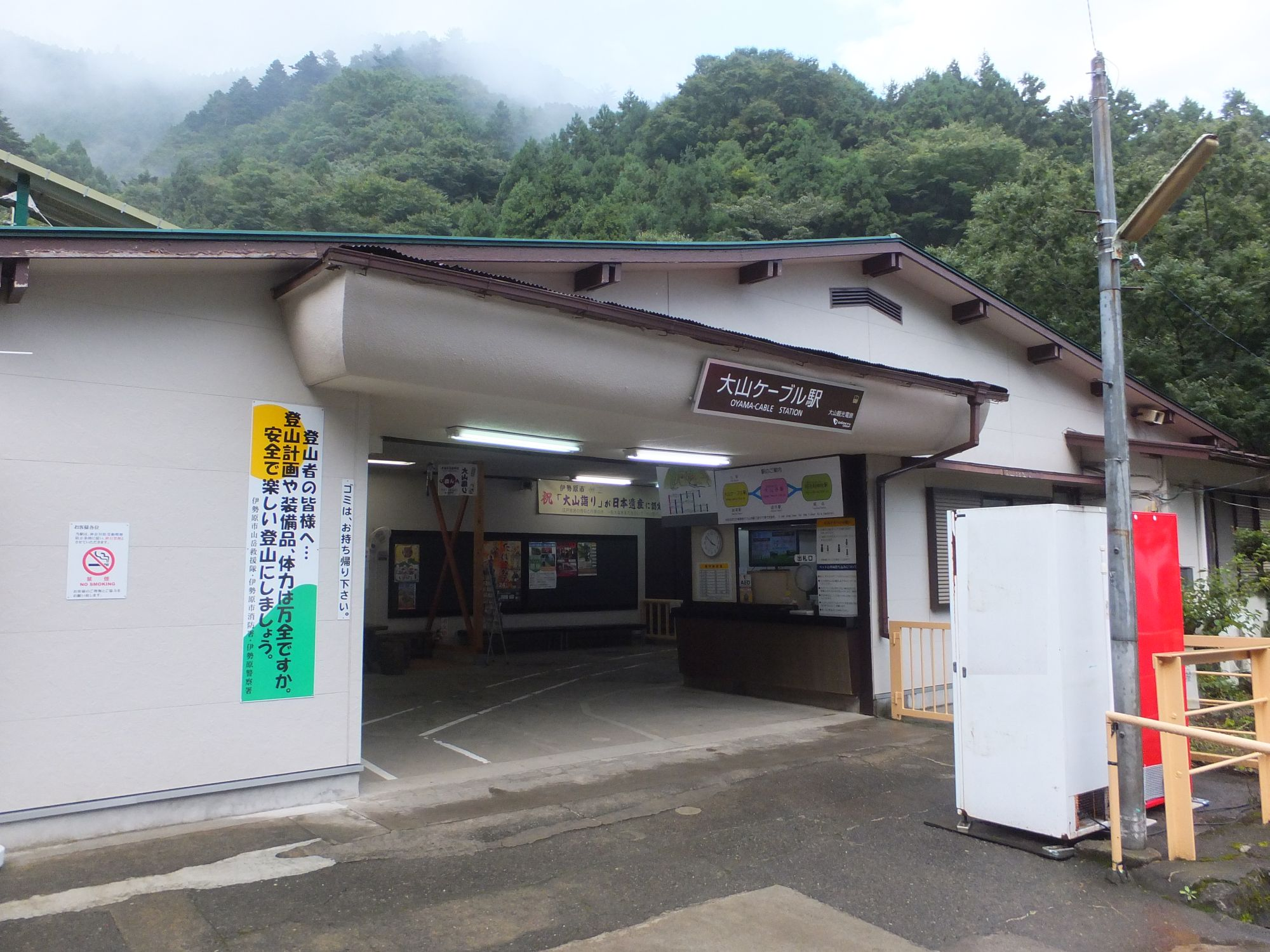 Ōyama Cable Station in Isehara, Kanagawa prefecture